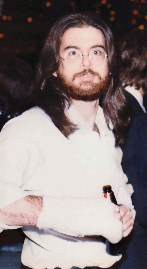 Bil Herd Commodore Design Engineer at Christmas Party 1985